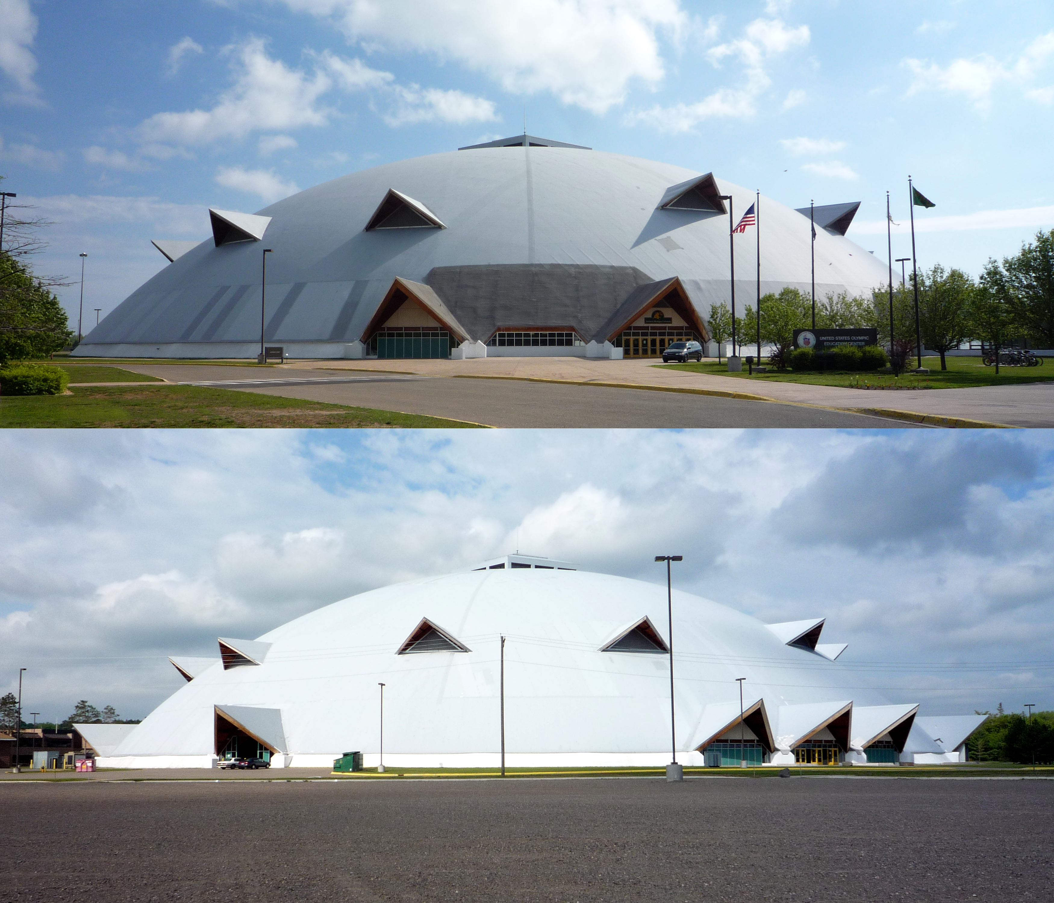 Superior Dome, the world's largest wooden dome (photo taken from opposite sides), Marquette, Michigan, USA.